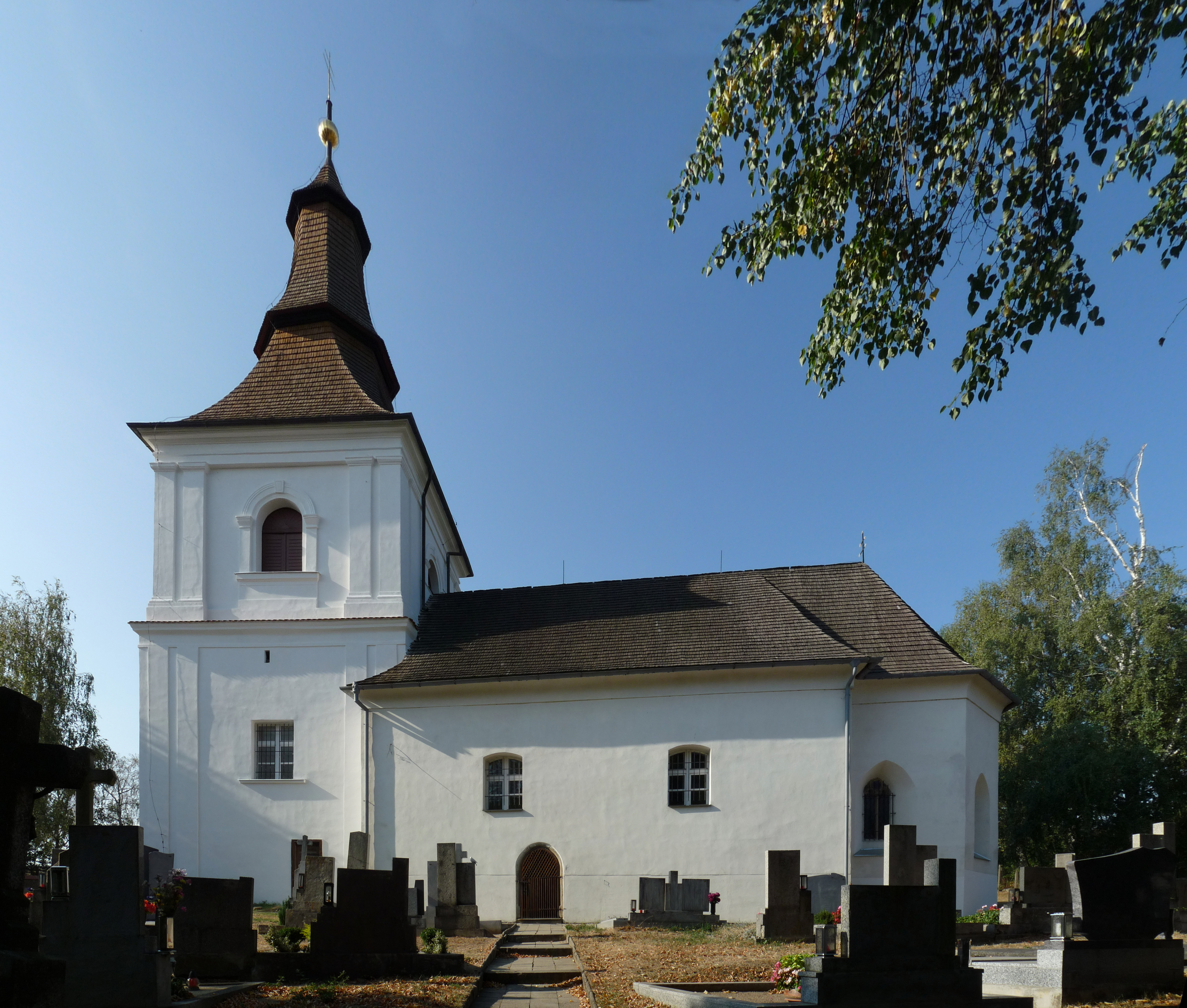 Curch of St Barbara with a cemetery in the village of Příseka, part of the town of Brtnice, Jihlava District, Vysočina Region, Czech Republic.